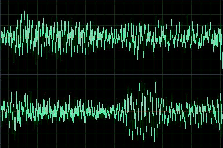 Representation of a digital sound, displayed by the Cool Edit Pro 2.0.